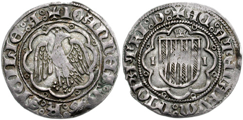 Italy, Regno di Sicilia e Sardegna. Giovanni II di Aragona (1458-1479). AR Carlino (24mm, 2.57 g, 3h). zecca di Messina. zecchiere Giovanni de Iudice. Battuto 1458-1467. +IOANNESD G R SICILIE A, aquila coronata stante sin., testa a dx in cornice a otto lobi; ciclamoro tra le cornice e il cerchio esterno, le parole sono separate da doppi ciclamori +AC ATENARVM NEOPATRI D, stemma coronato, lettera I su entrambi i lati in cornice a otto lobi; ciclamoro tra le cornice e il cerchio esterno, le parole sono separate da doppi ciclamori Italy, Kingdom of Sicily and Sardinia. John II, King of Aragon and Sicily. 1458-1479. AR Carlino (24mm, 2.57 g, 3h). Messina mint. Giovanni de Iudice, mintmaster. Struck 1458-1467. +IOANNESD G R SICILIE A, crowned eagle standing left, head right within octolobe; annulet within external voids, double-annulet stops +AC ATENARVM NEOPATRI D, crowned coat-of-arms, I on either side; all within octolobe; annulet within external voids, double-annulet stops. Spahr 77; Crusafont/Sabater 491A; MEC 14, 881. see: Carlino Italian medieval coins